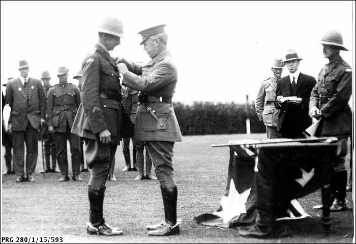 Sir Henry Galway, Governor of South Australia, presenting the D.S.O. to Colonel S. Price Weir D.S.O. V.D., commander 10th Battalion 1914 to 1916, at Keswick Barracks on Wednesday 15 January 1919. State Library of South Australia PRG 280/1/15/593